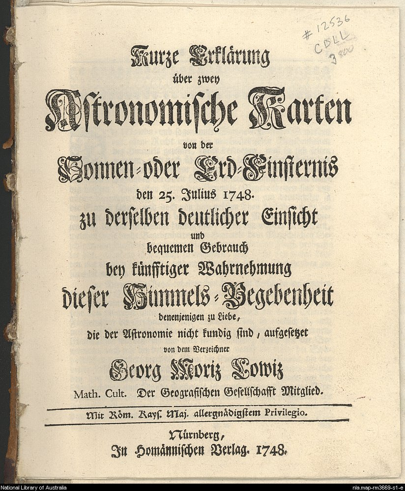 The title page of the book "Kurze Erklärung über zwei astronomische Karten von der Sonnen", Nürnberg, 1748